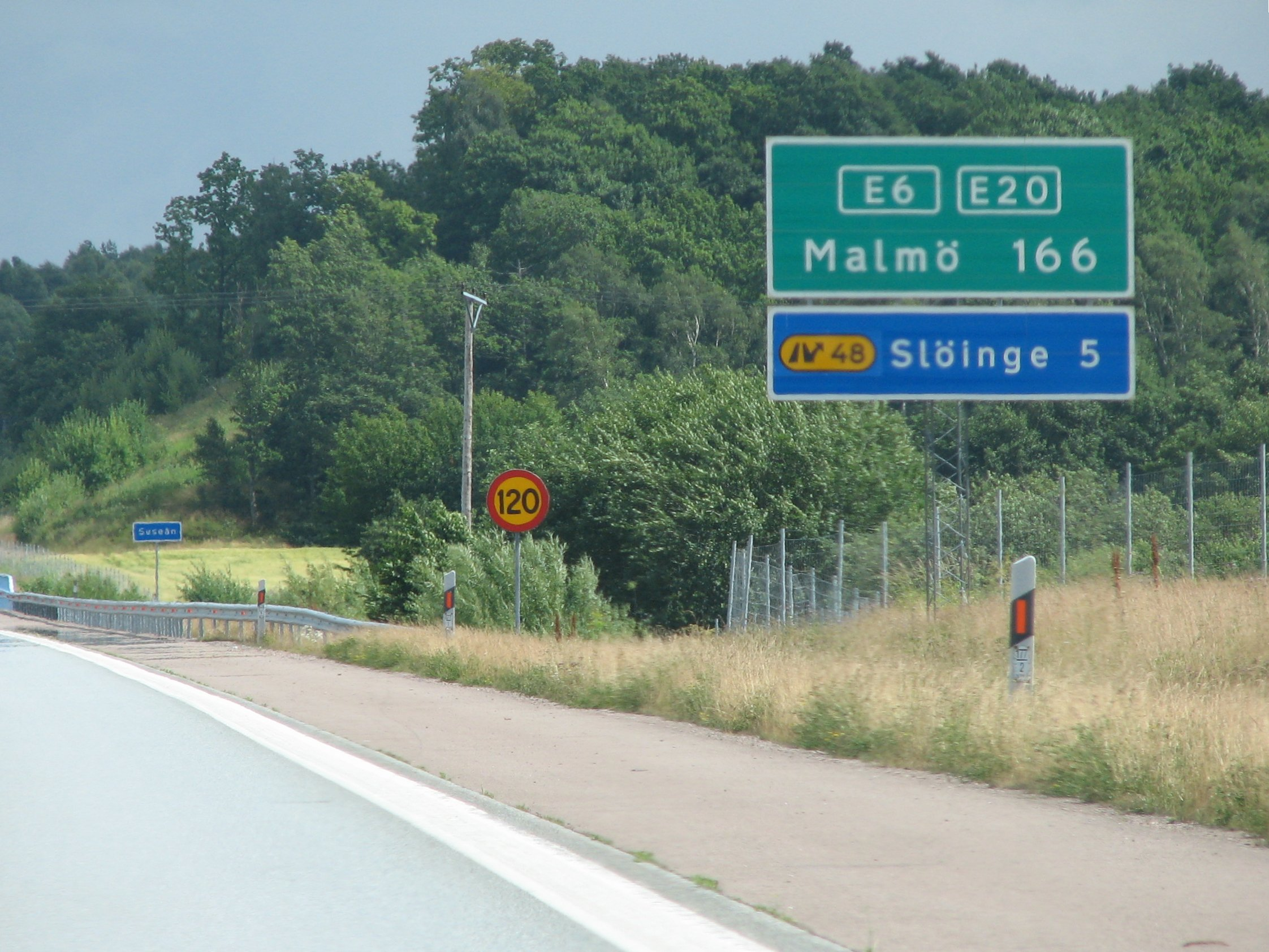 Experiment with higher speed limit on European route 6 in southern Halland.